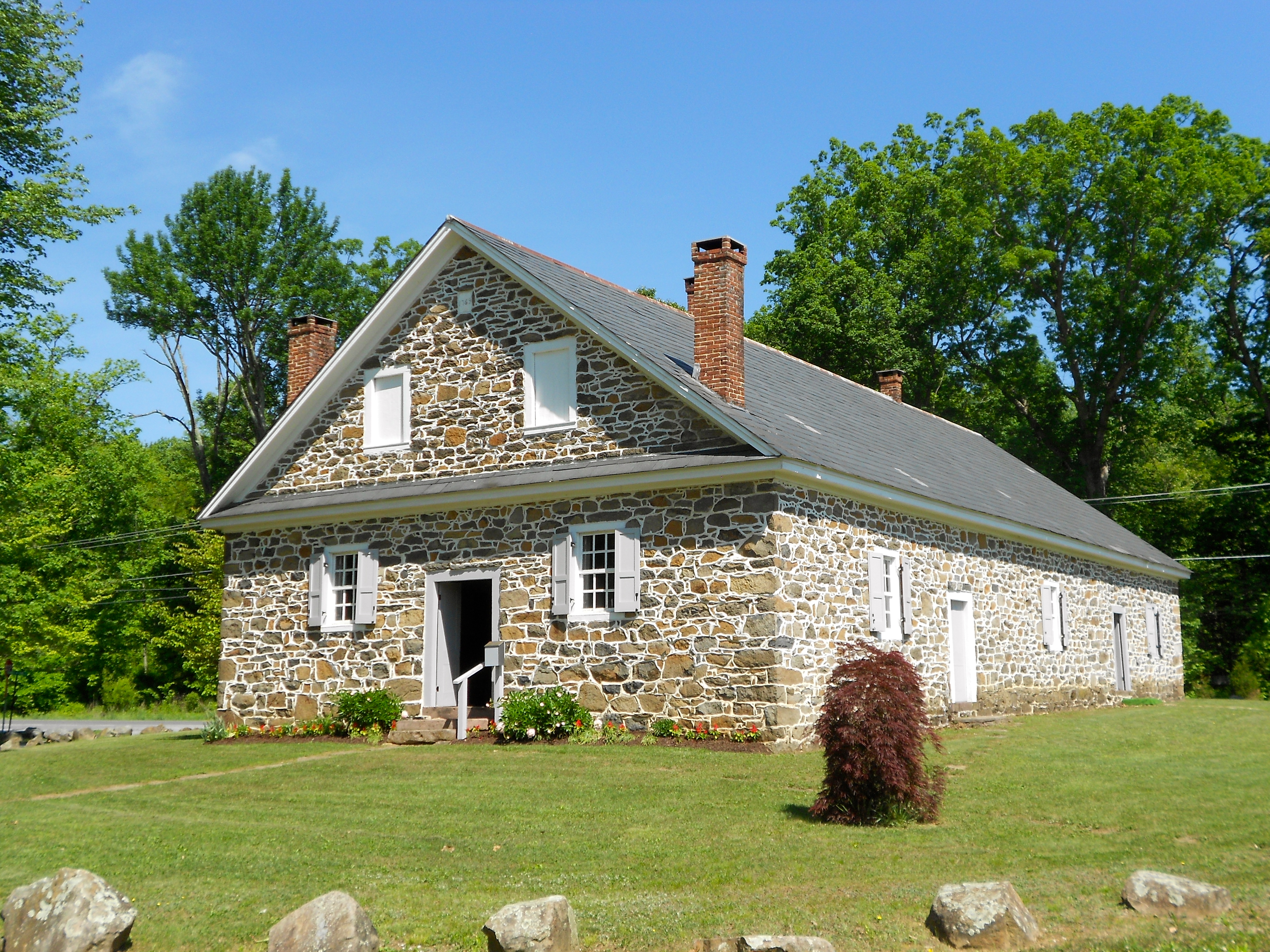 Warrington Friends Meeting in Warrington Township, York County, Pennsylvania